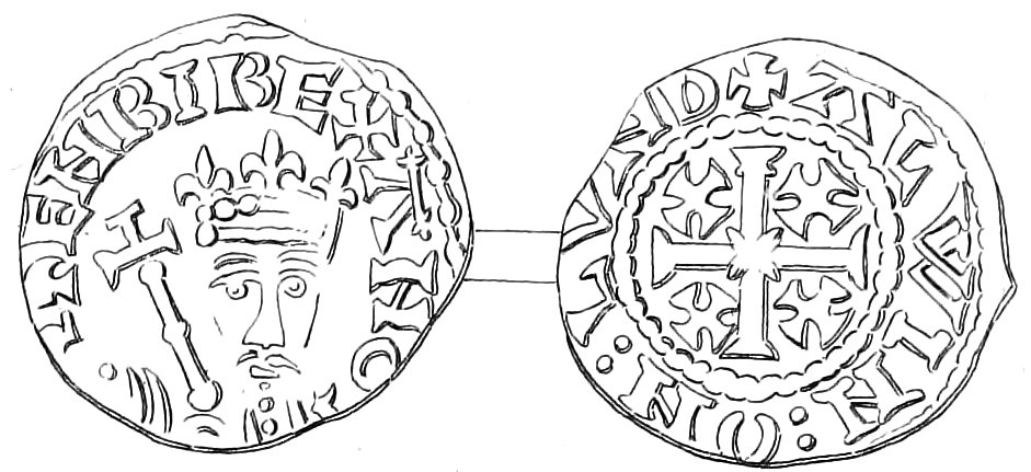 "Cross-and-crosslets" penny minted under Henry II of England. Description (p. 87): "The type of his first coinage is the king's bust with nearly a full face, holding a sceptre in his right hand. Rev. cross potent with a small cross in each angle. He is styled HENRI R. RE REX A. AN ANGL." The moneyer was Alwin, London mint. (ALWIN ON LUND). No. 1340 in Seaby's Coin and Medal Bulletin: "Alwin Plantagenets, Henry II, AR Long Cross Penny, 1.14 gr. 1158-1180 AD. Moneyer Alwin, London mint. +HEN..., Crowned bust facing, with sceptre / +AL ON:LVN, short cross and crosslets. Seaby 1340-1341; N. 958-960." Timeline Auctions, LOT 0106 (Thursday 14th March 2013 & Friday 15th March 2013 Coins & Antiquities), sold for (Inc. premium): £115, English Medieval Henry II and Richard II - Tealby and Long Cross Pennies. "Obv: facing bust with sceptre and +HEN legend. Rev: short cross and crosslets with +AL ON:LVN legend for the moneyer Alwin at London mint. Literature S. 1340-1341/1692; N. 958-960/1330." [1]